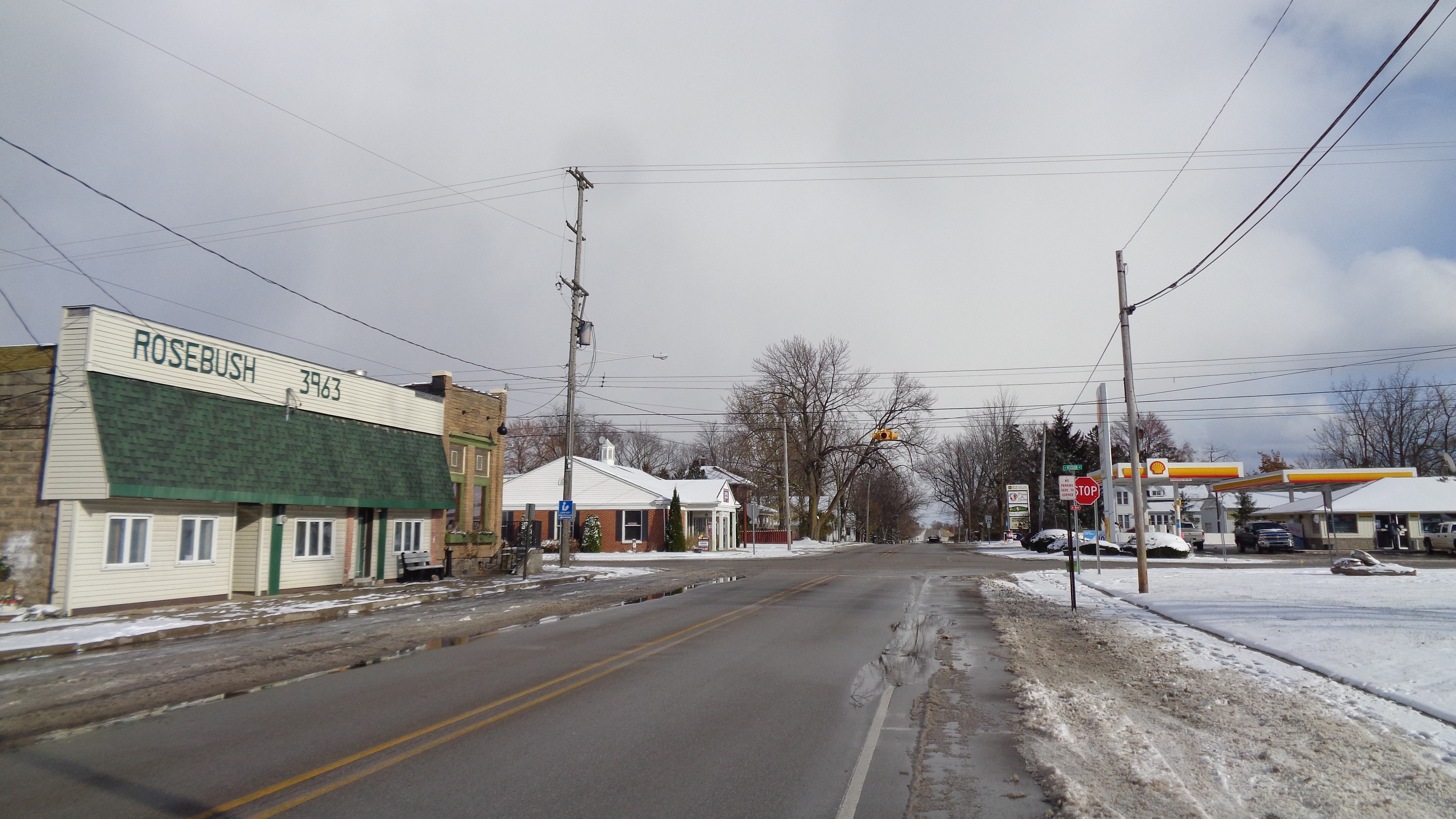 Depicted place: Rosebush